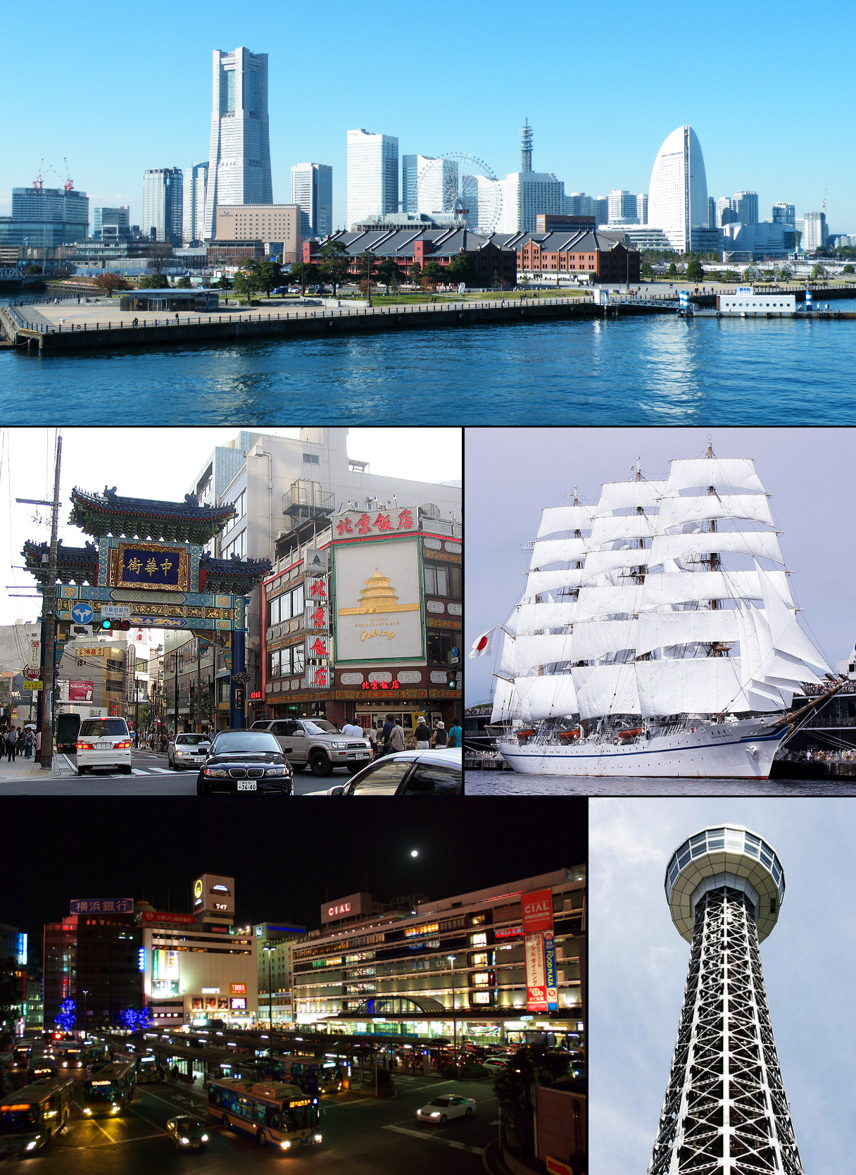 From top left: Minato Mirai 21, Yokohama Chinatown, Nippon Maru, Yokohama Station, Yokohama Marine Tower.